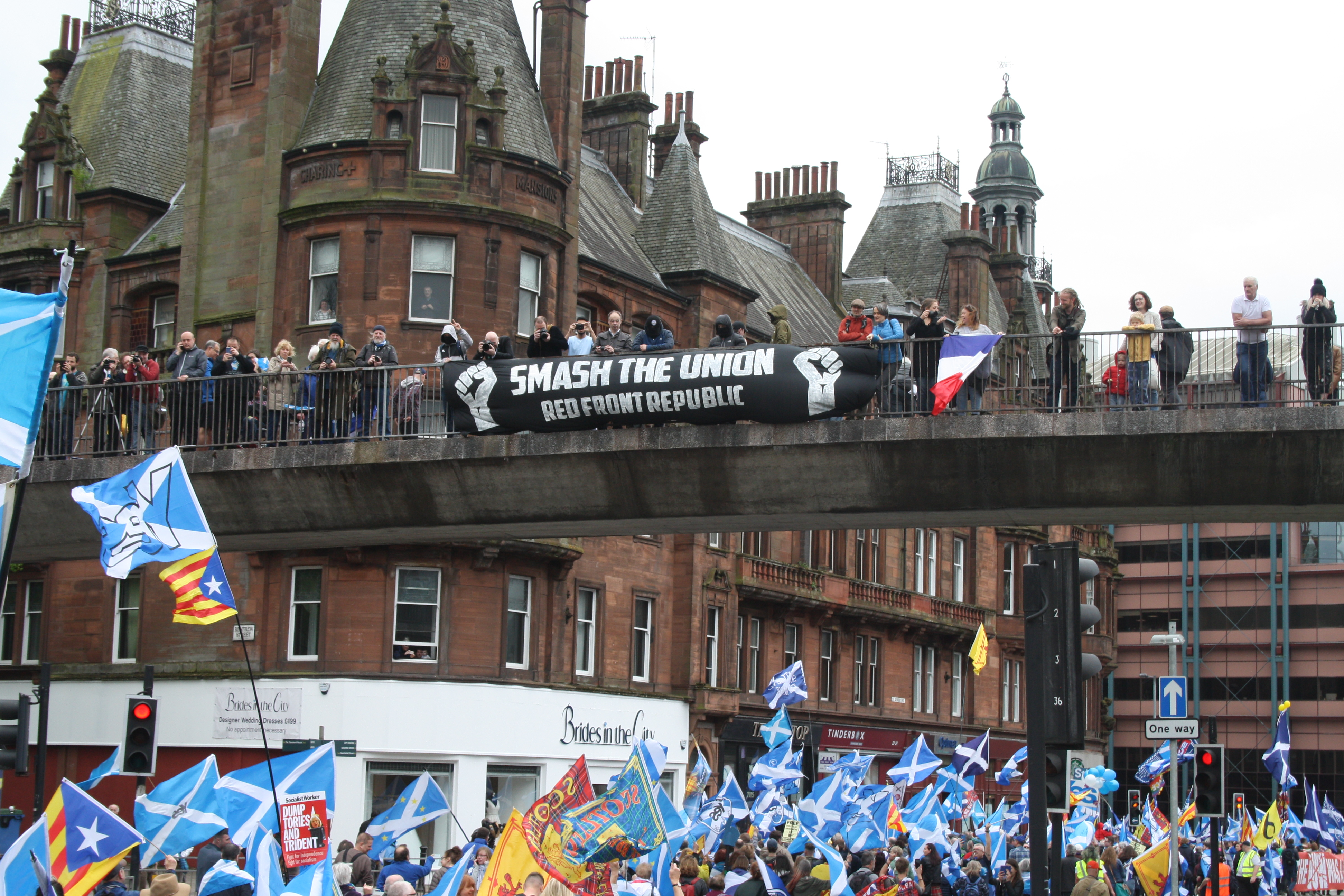 Anarchist banner. Scottish independence rally 2018